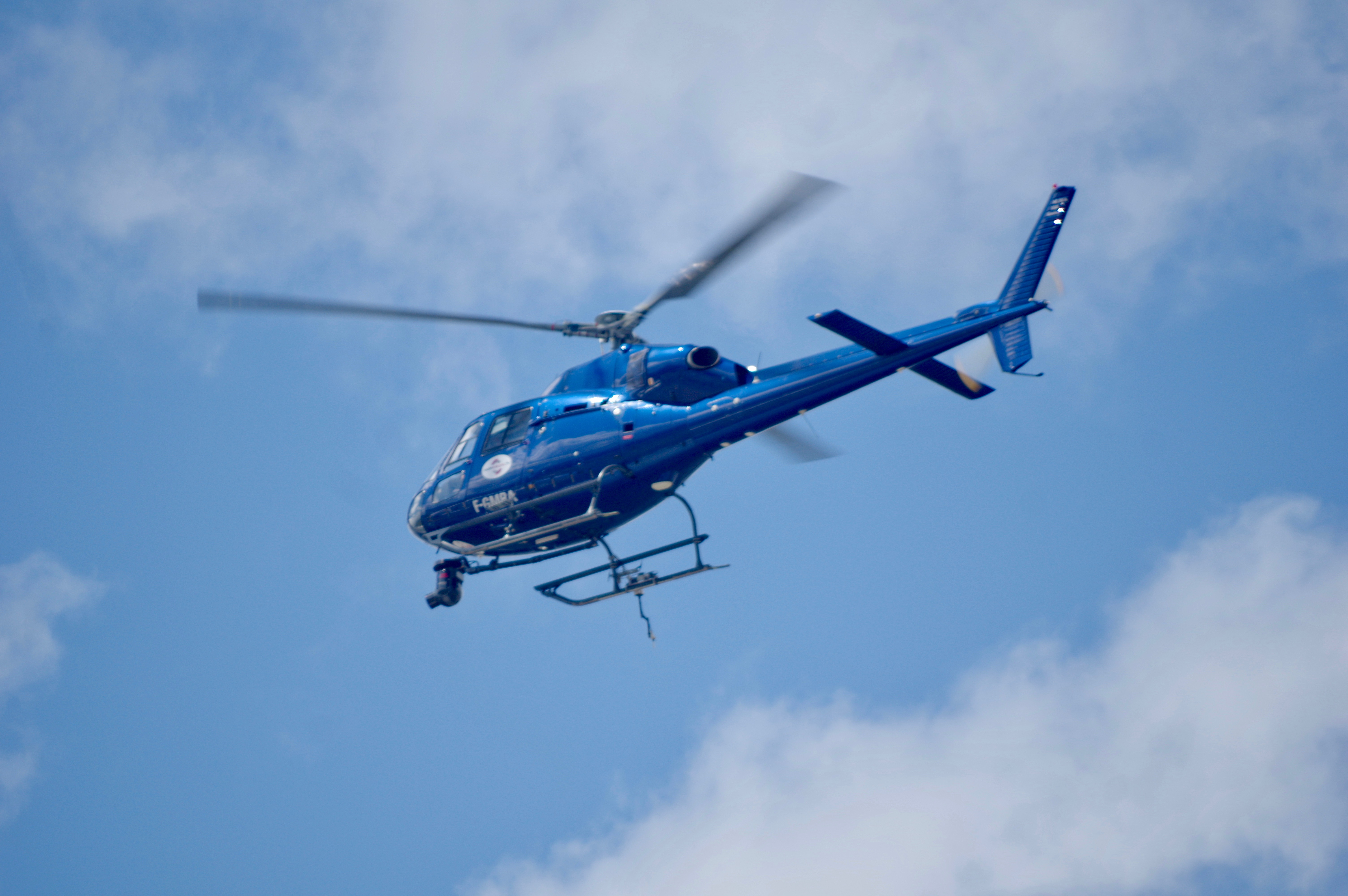 This helicopter takes most of the aerial video of the race Le Mans 24 Hours 2019 - Around the Track